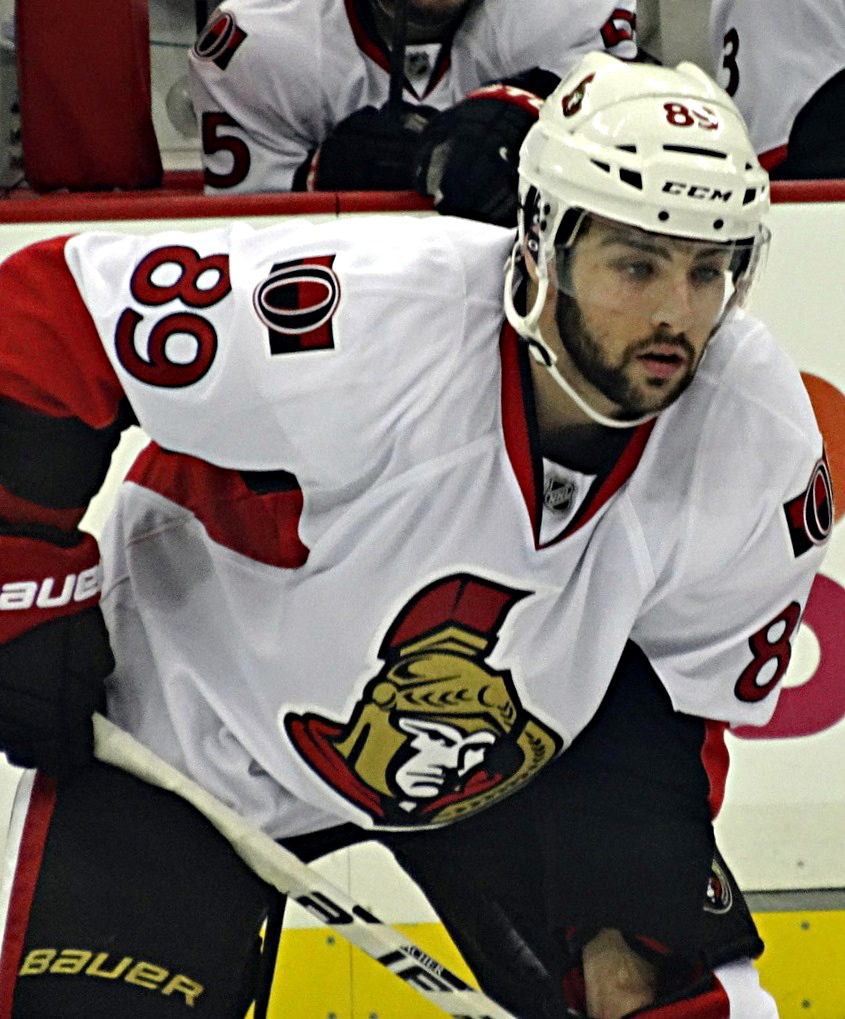 Ottawa Senators forward Cory Conacher during game two of their second round series against the Pittsburgh Penguins, May 17, 2013 at Consol Energy Center in Pittsburgh, PA.